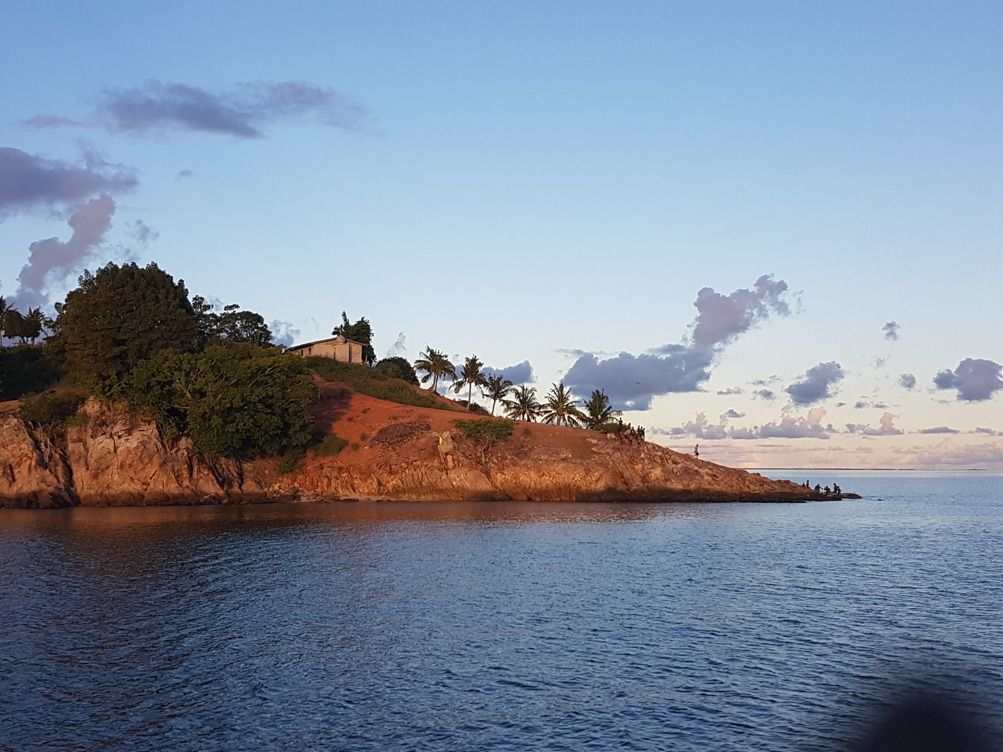 Andulinang Island during sunset. A 2-hectare island and is the largest of two islands in the Andulinang Reef of Celebes Sea. Taken during the mapping, reconnaissance, extraction-deployment mission of the Philippine Marines together with Schadow1 Expeditions.